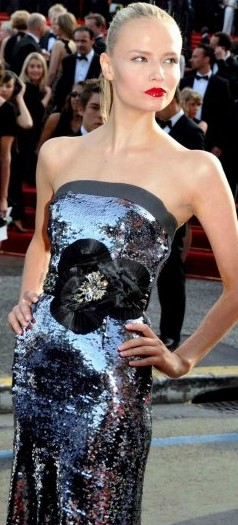 Natasha Poly at the Cannes film festival